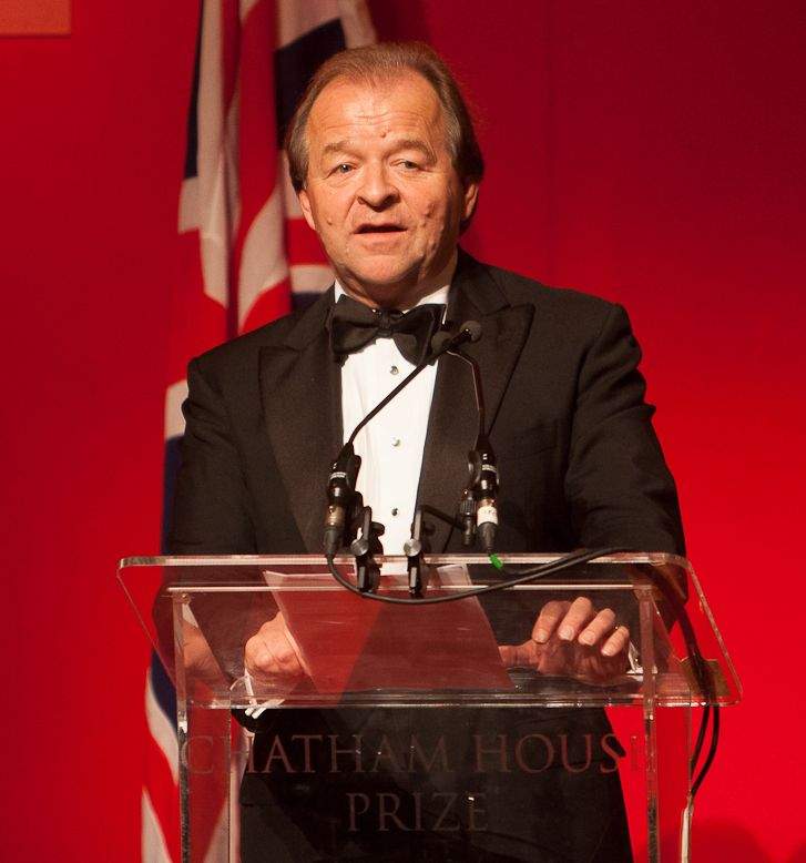 Cropped from original